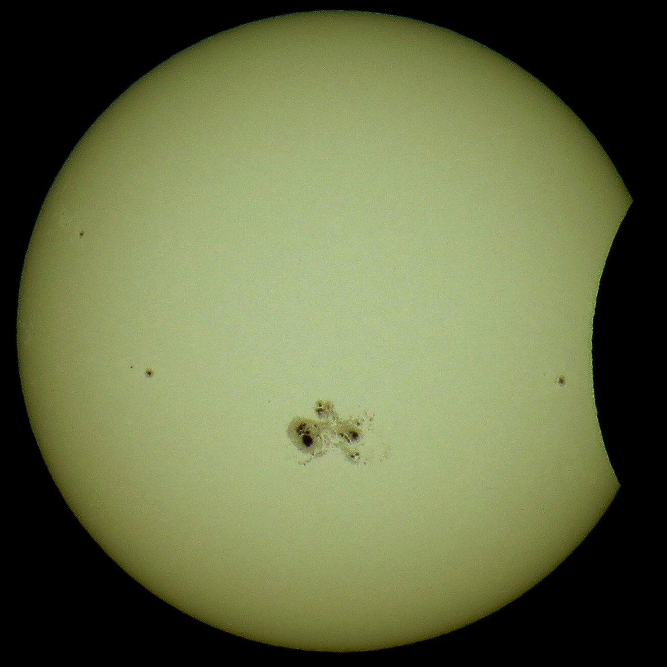 Start of solar eclipse of October 23, 4:34 pm CDT, 21:34 UTC, Minneapolis